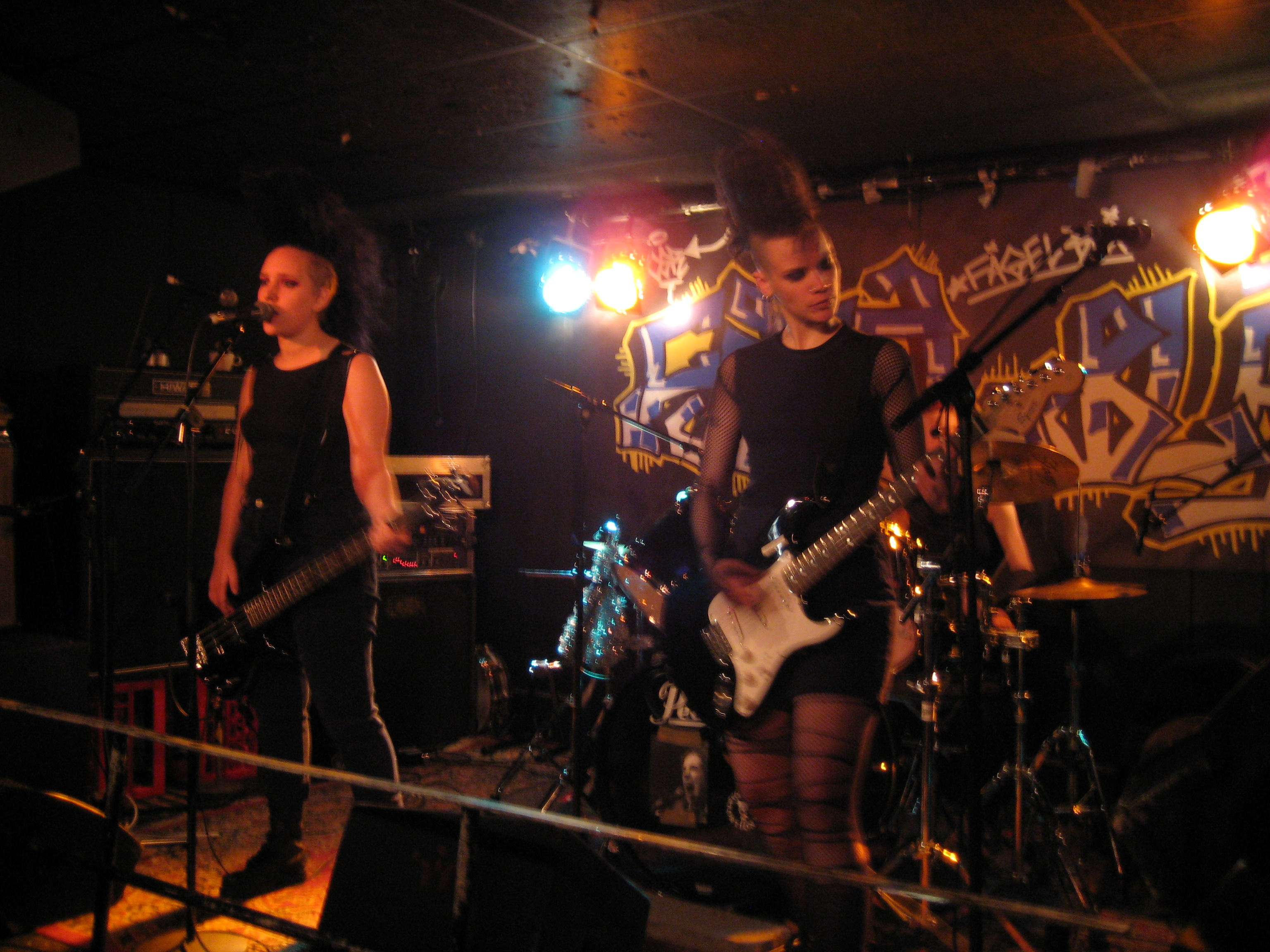 Hata Katten live at club Showdown, Gothenburg dec 2008